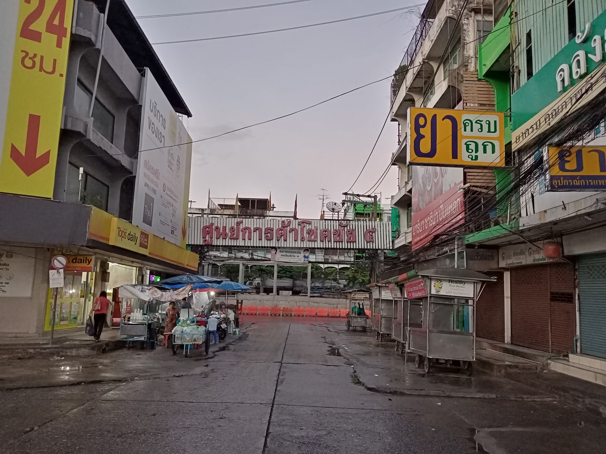 Chokchai 4 Market.